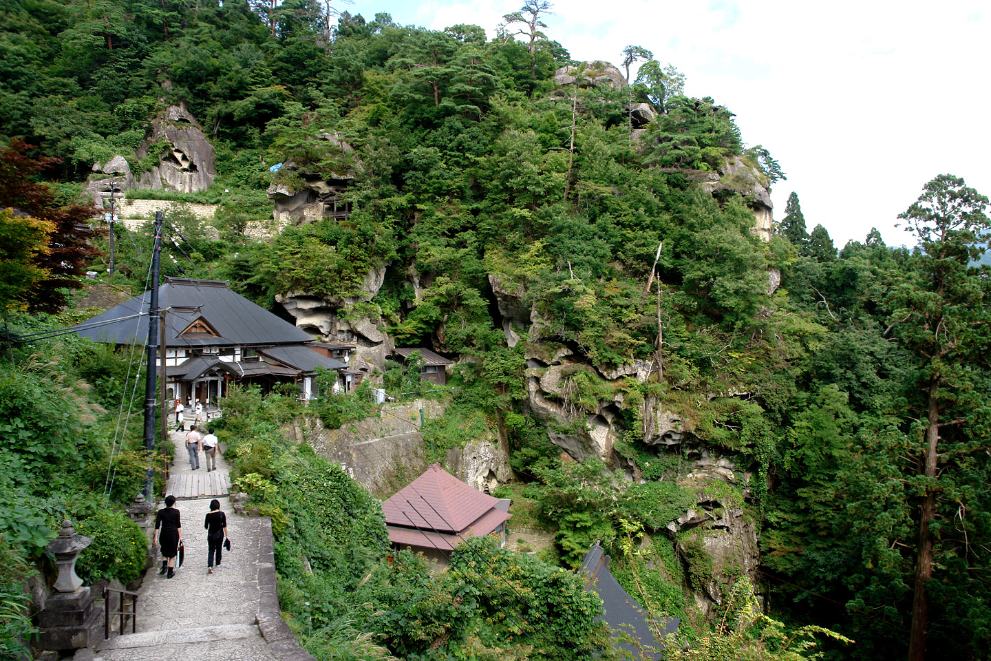 View from Kaisan-dō of Risshaku-ji temple (Yama-dera) in Yamagata-shi, Yamagata Prefecture